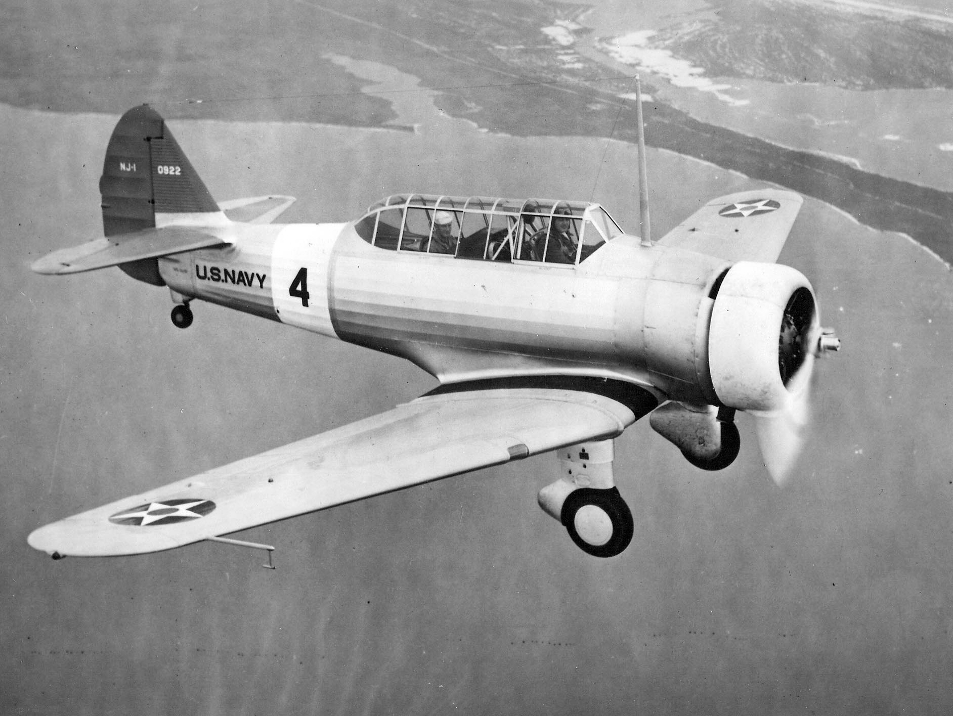 A U.S. Navy North American Aviation NJ-1 Texan (BuNo 0922) in flight, in 1938.